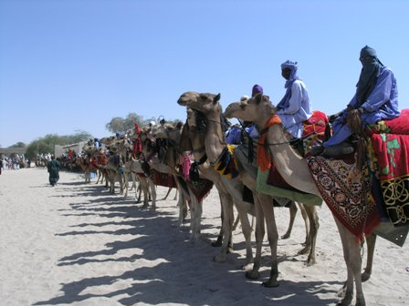 "Traditional chief of Nguigmi [Niger] arranges warm welcome featuring camel riders during [United States] Ambassador’s visit." U.S. Embassy-sponsored 2009 Hip Hop Caravan, from the Website of the United States Embassy, Niamey.